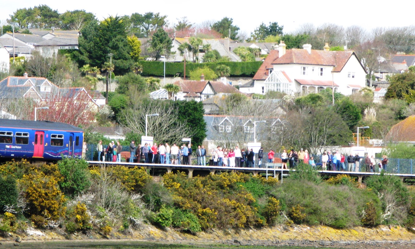 More than 60 passengers wait at lelant Saltings railway station in Cornwall, United Kingdom, to board a Good Friday train to St Ives. the station is operated as a "park and ride" facility for St Ives. The train is First Great Western's 150233.